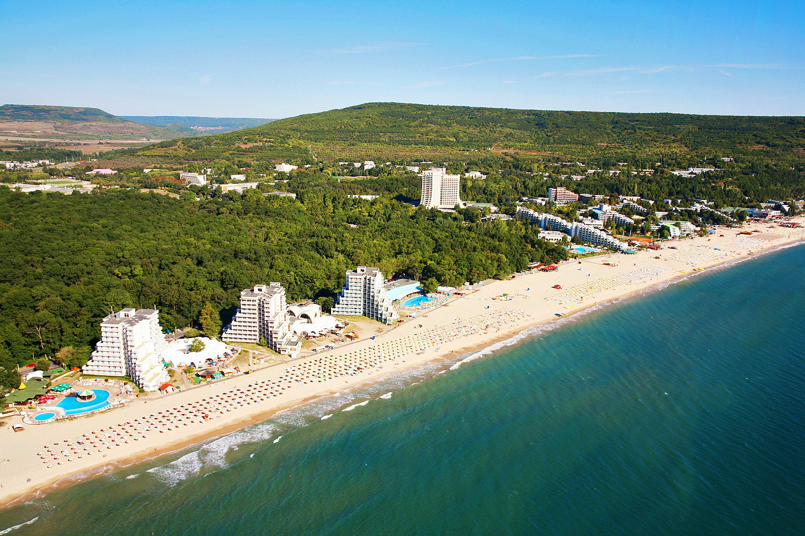 Shot from a small plane.